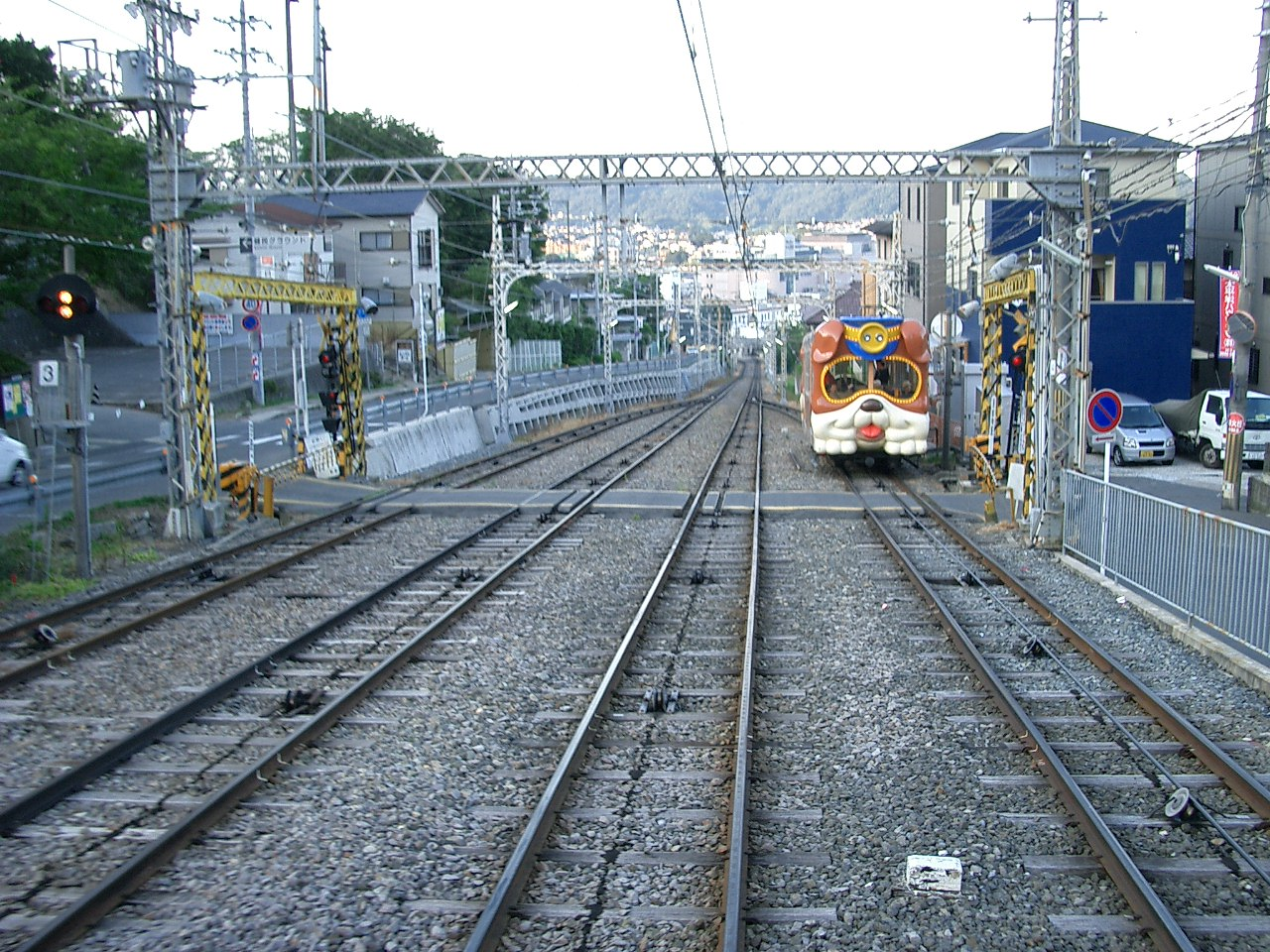 Its photo is TORIIMAE crossing No.3 on Ikoma Cablecar of Kintetsu Railway.